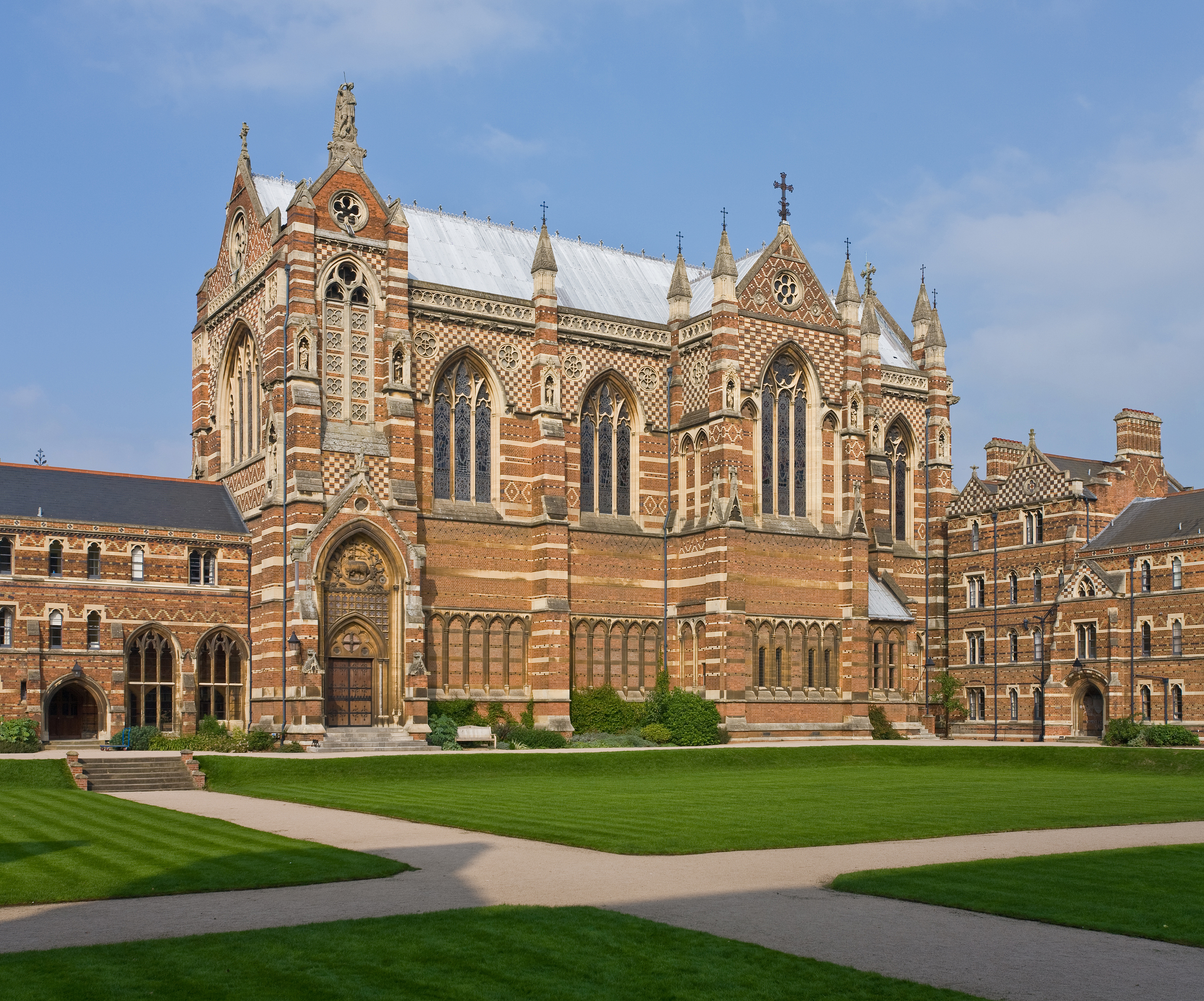 Keble College Chapel, Oxford seen across Liddon Quad. Taken by myself with a Canon 5D and 17-40mm f/4L lens.